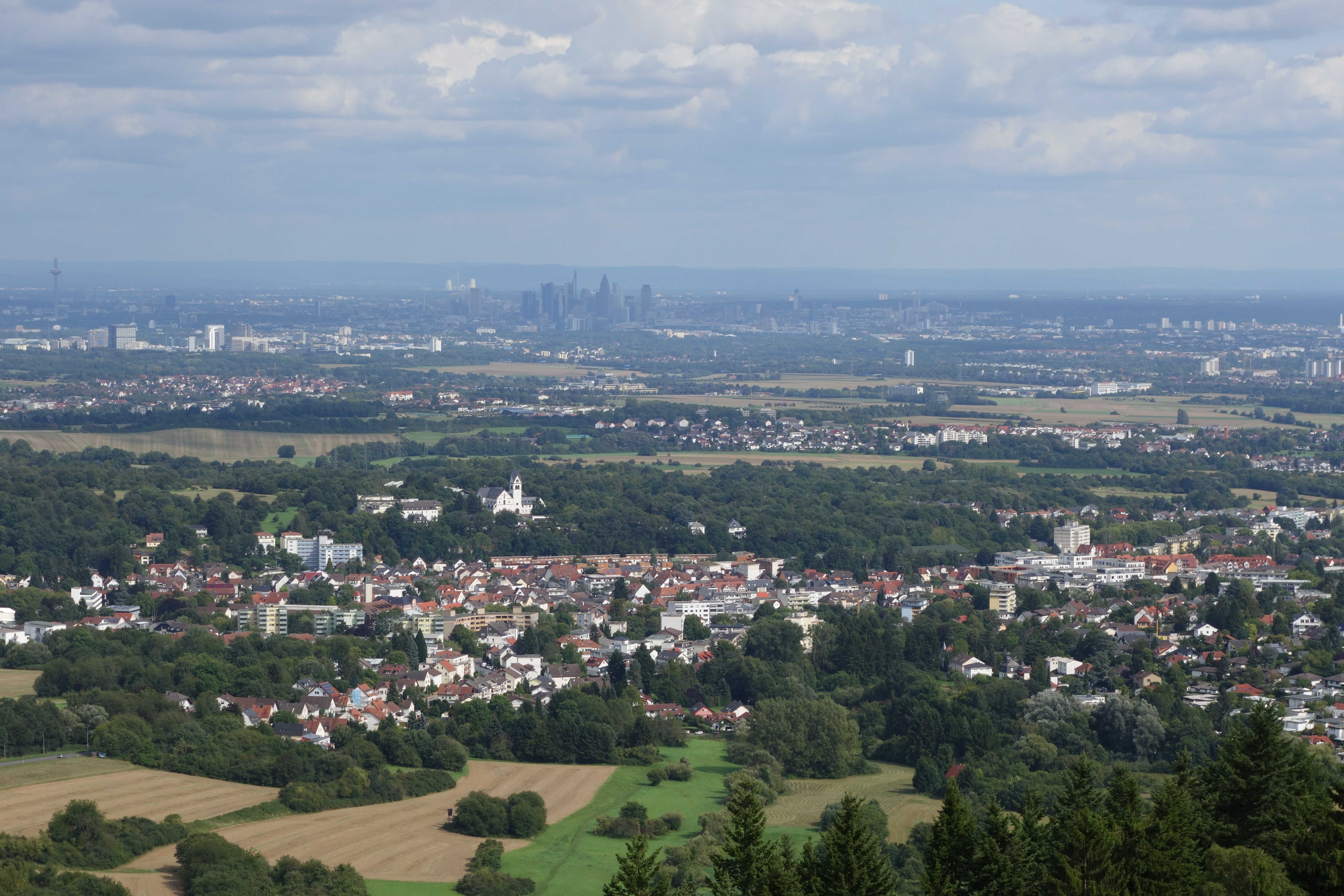 View from Großer Mannstein near Staufen over Kelkheim and Frankfurt.